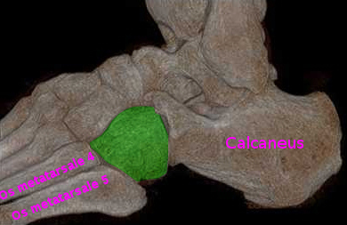 Cuboid Bone (Os cuboideum) in Human Foot, sagital view, Bone, very high resolution 3D reconstruction from CT-scans volume reconstruction technique (VRT)